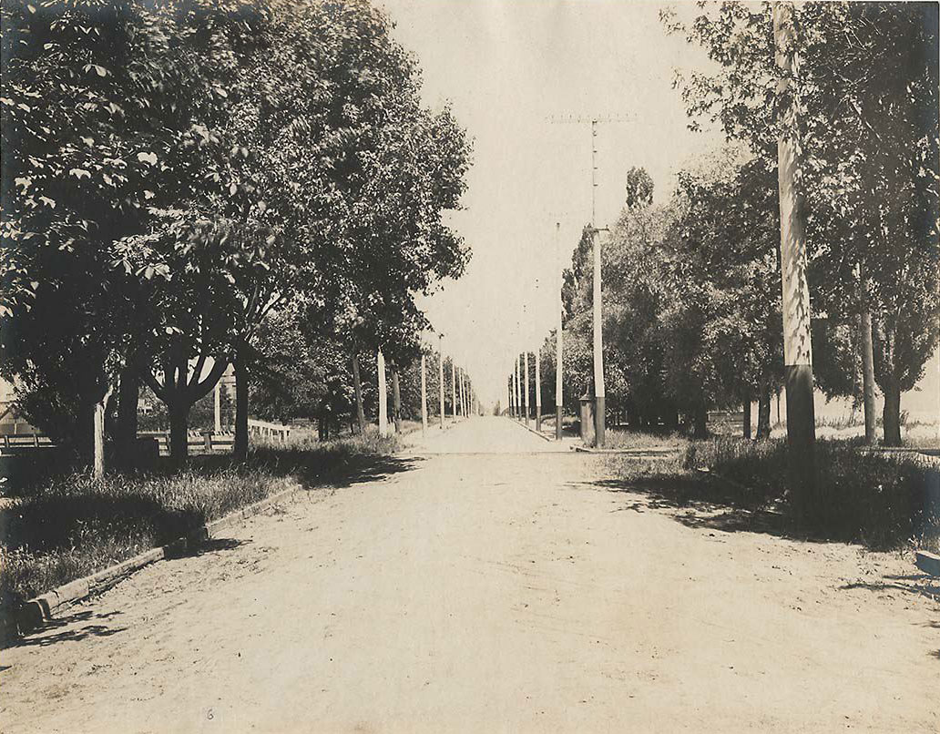 View of Jameson G.T.R. crossing looking north in 1899.